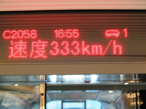 Tianjןn-Beijin intercity train speed sign shows speed during traveling